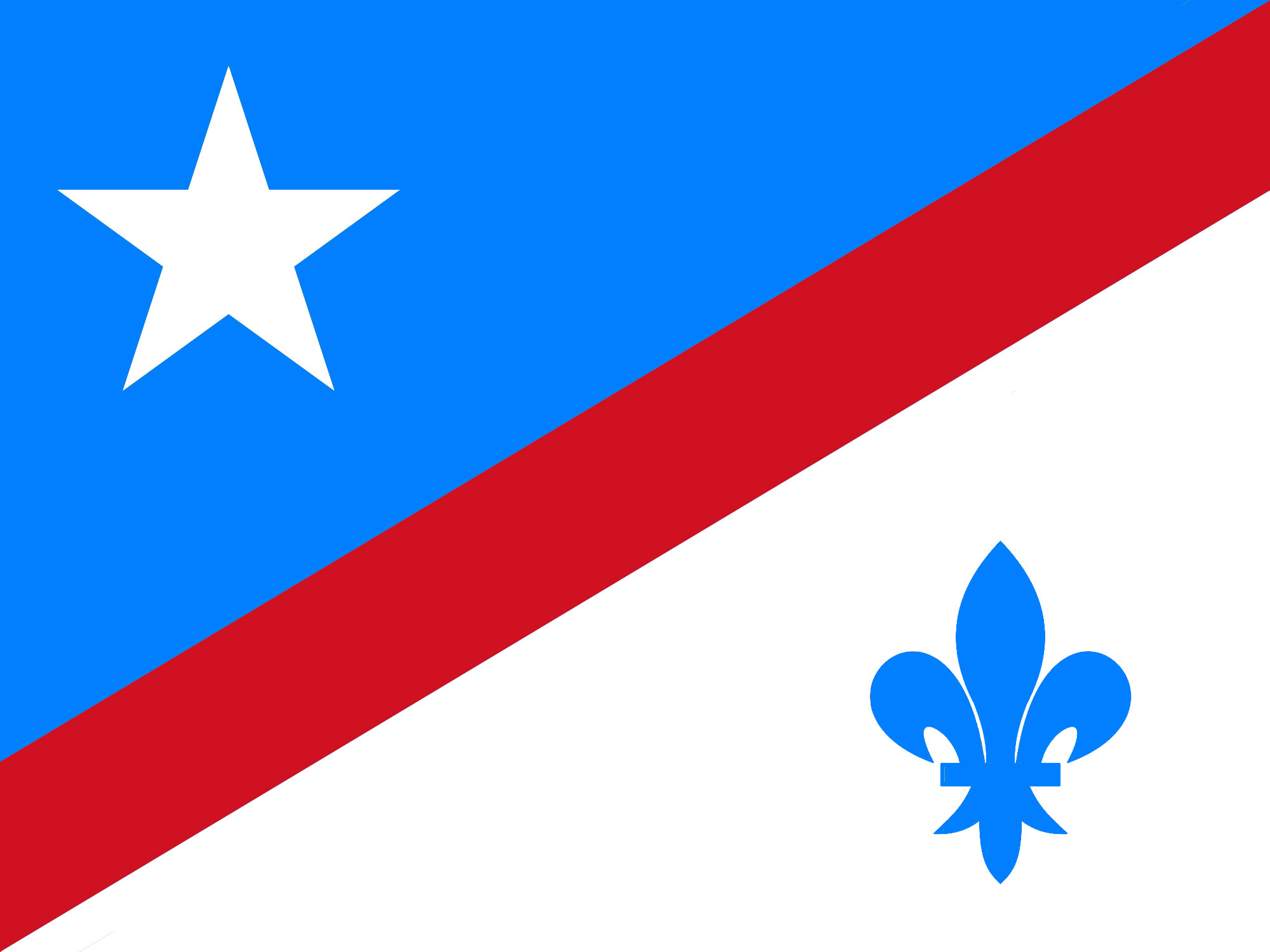 Franco-American Flag